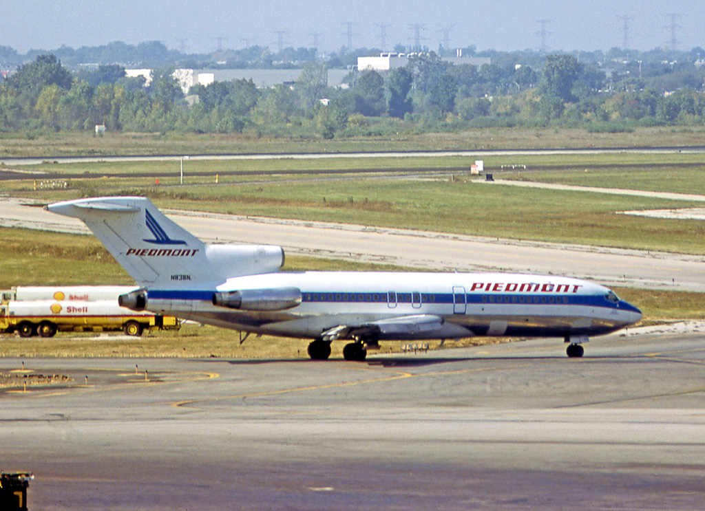 Boeing 727-51 N838N of Piedmont Airlines at Chicago O'Hare in 1979